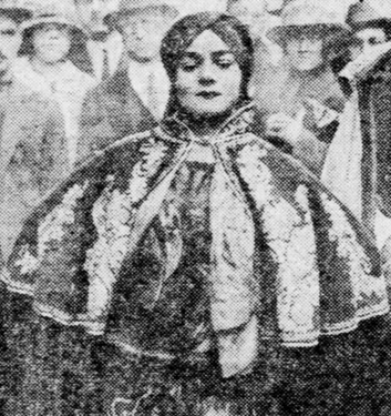 Nyota Inyoka, as she appeared in New York City in 1922. A young woman with fair skin and dark eyes, wearing a turban and an ornate cape.